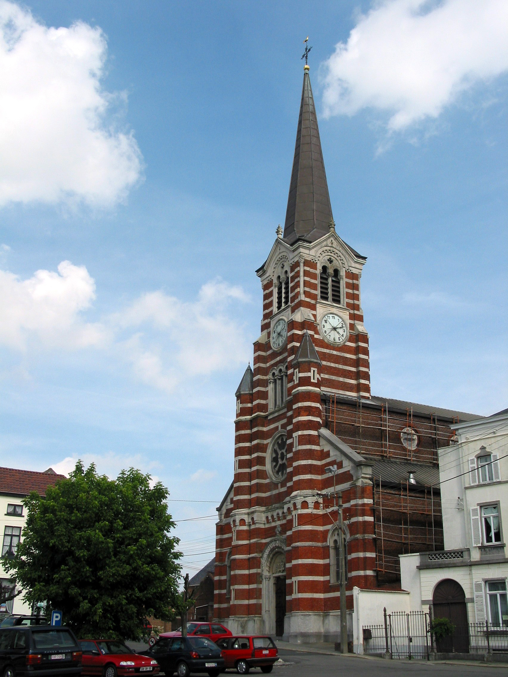 Rebecq (Belgium), the St. Gaugericus' church 1867 - Architect: Coulon).